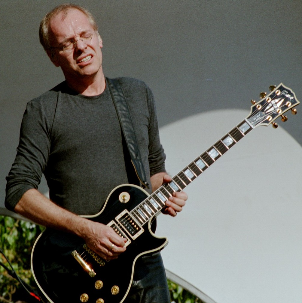 Peter Frampton performing at Gulfstream Park in Hallandale, FL.